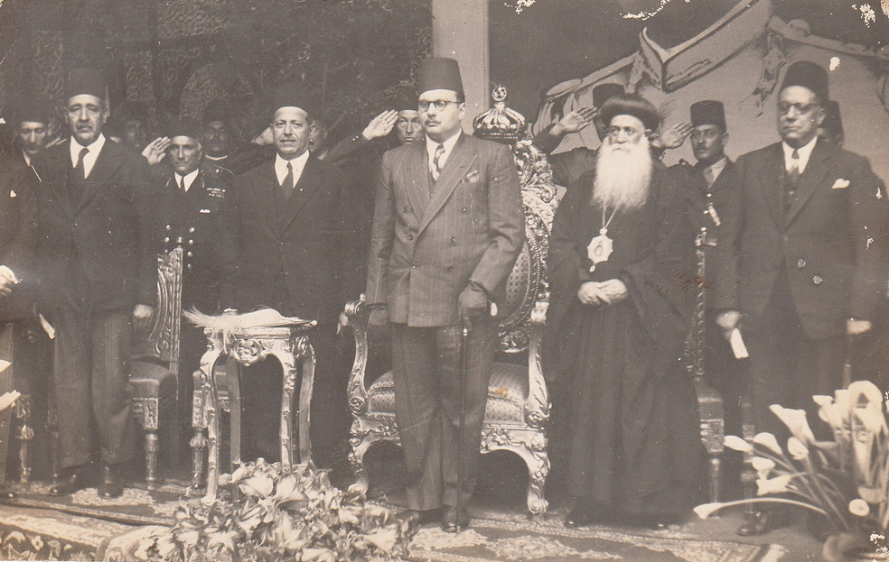 HM King Farouk I of Egypt with Coptic Pope and Patriarch of St Mark, Makram Ebeid,Yousab in Alexandria, Egypt